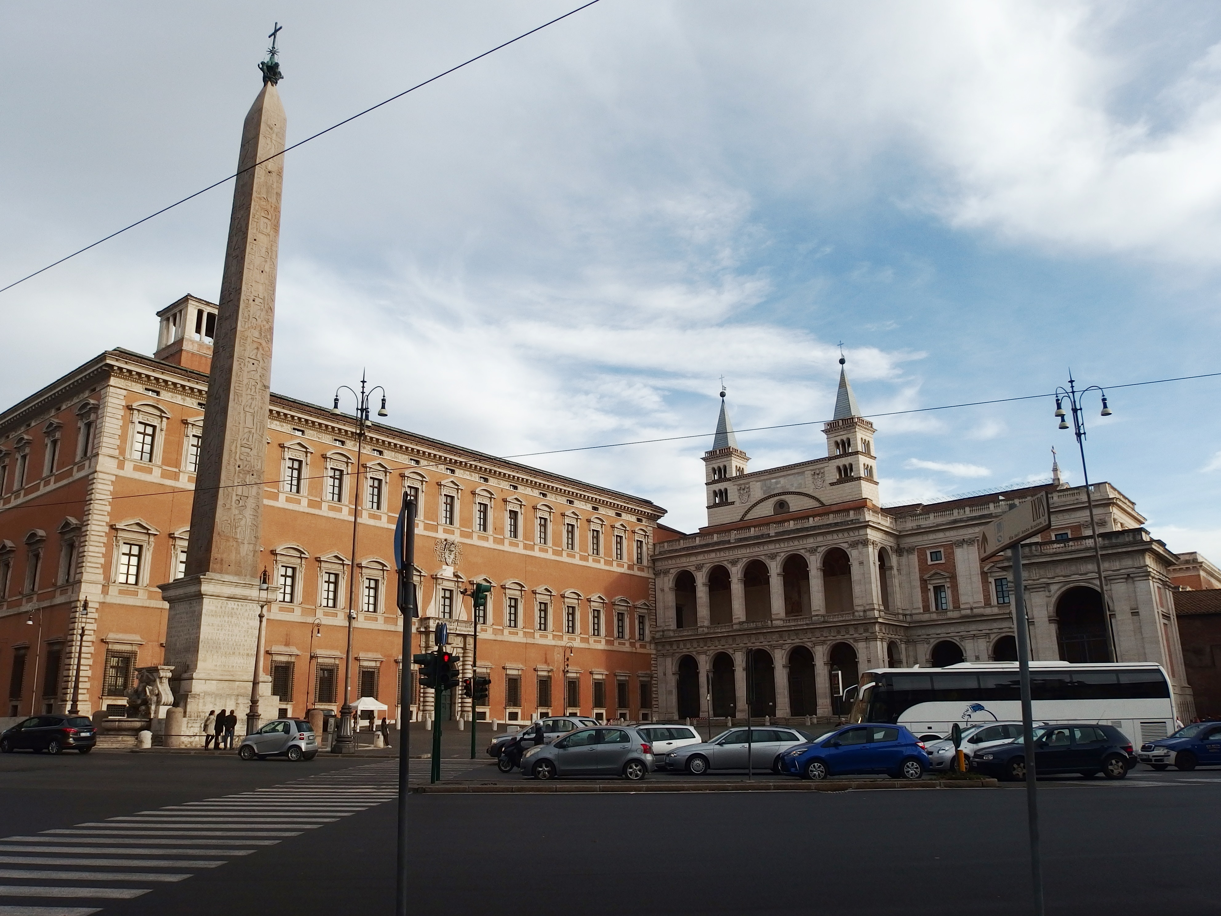 Rome, Italy. Square Piazza San Giovanni in Laterano.